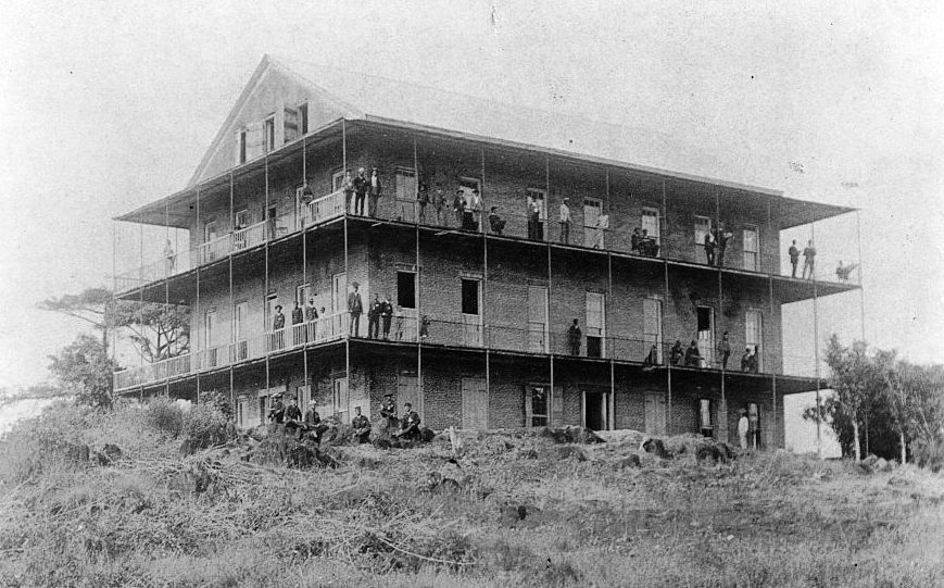 Liberian College, Monrovia; now University of Liberia